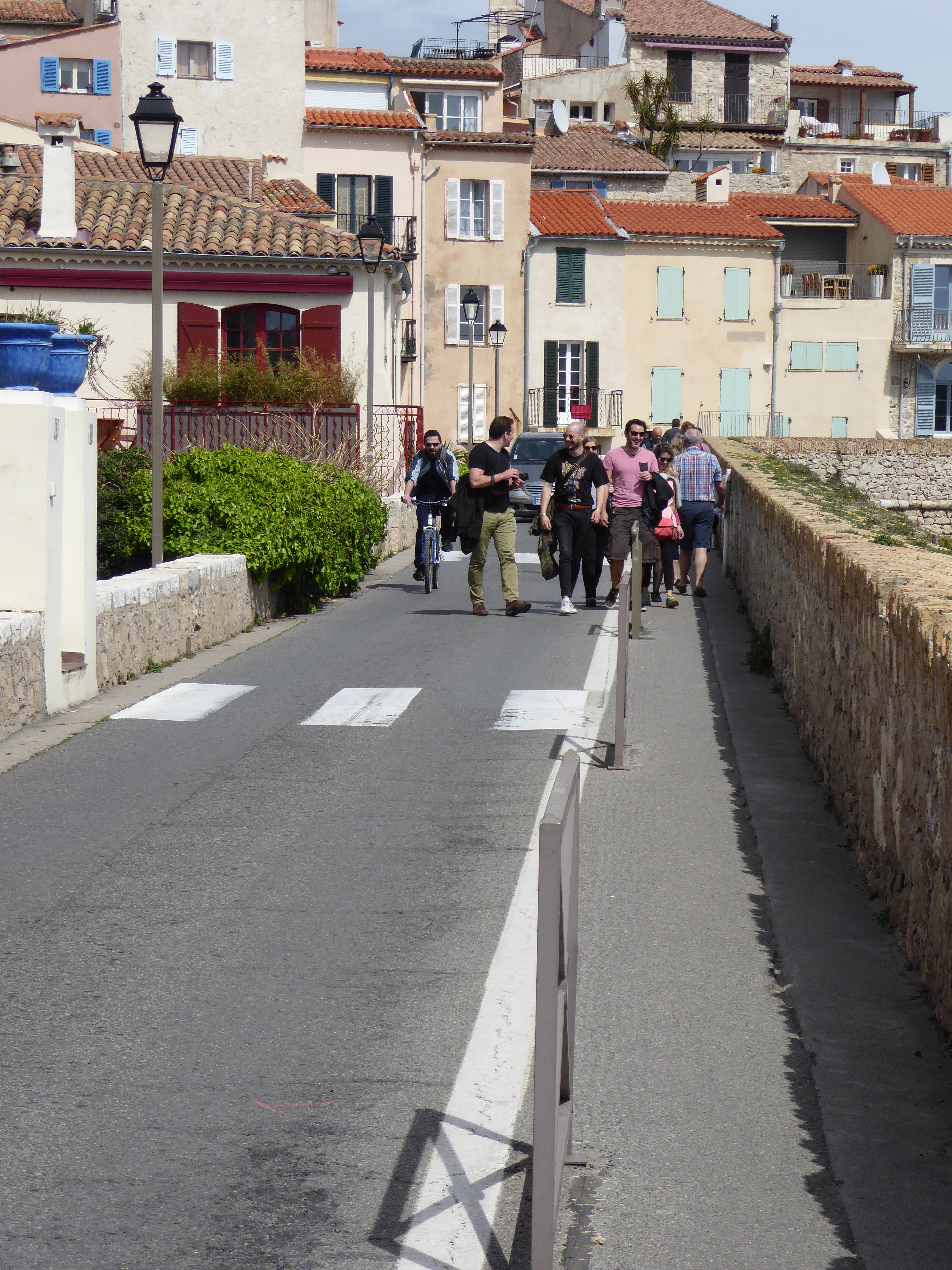 Prom Am de Grasse